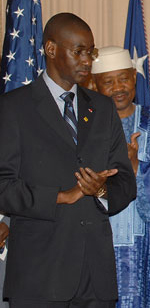 Moctar Ouane (foreground), Minister of Foreign Affairs for Mali. The man behind him is Amadou Toumani Touré.